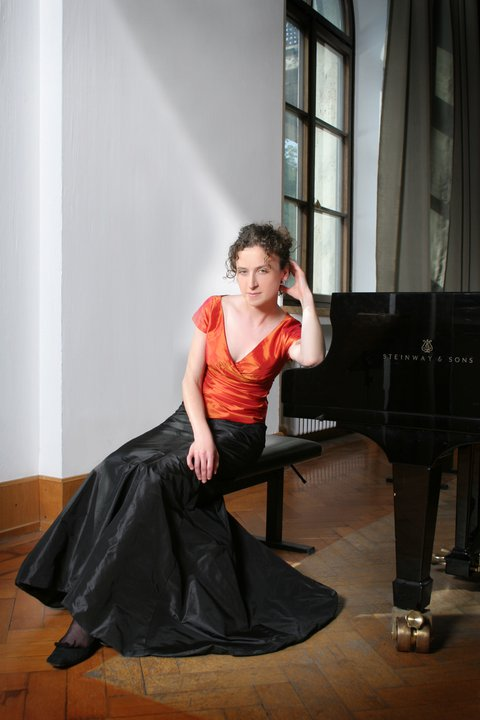 Ani Takidze Georgian pianist